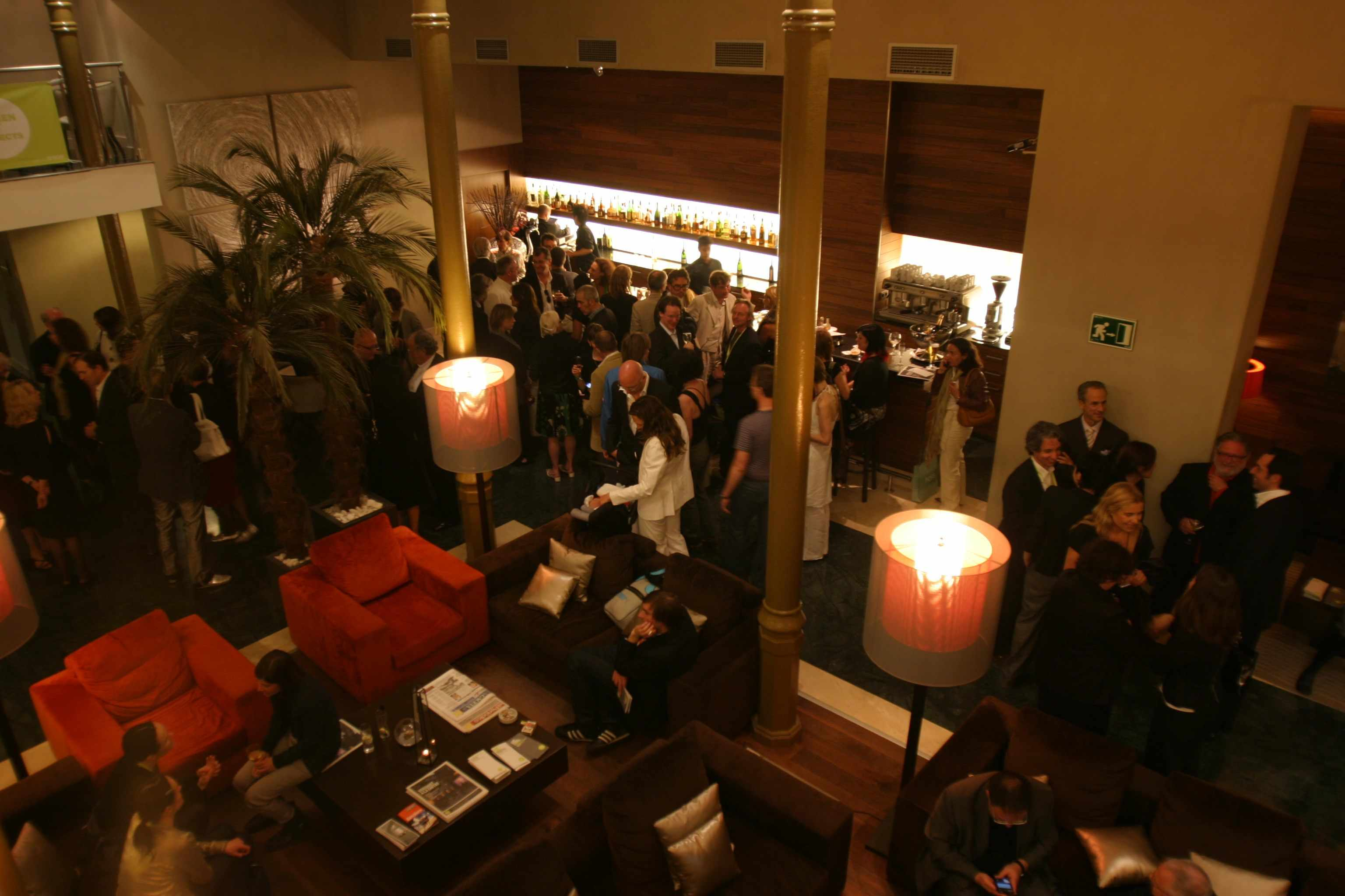 Hotelbar